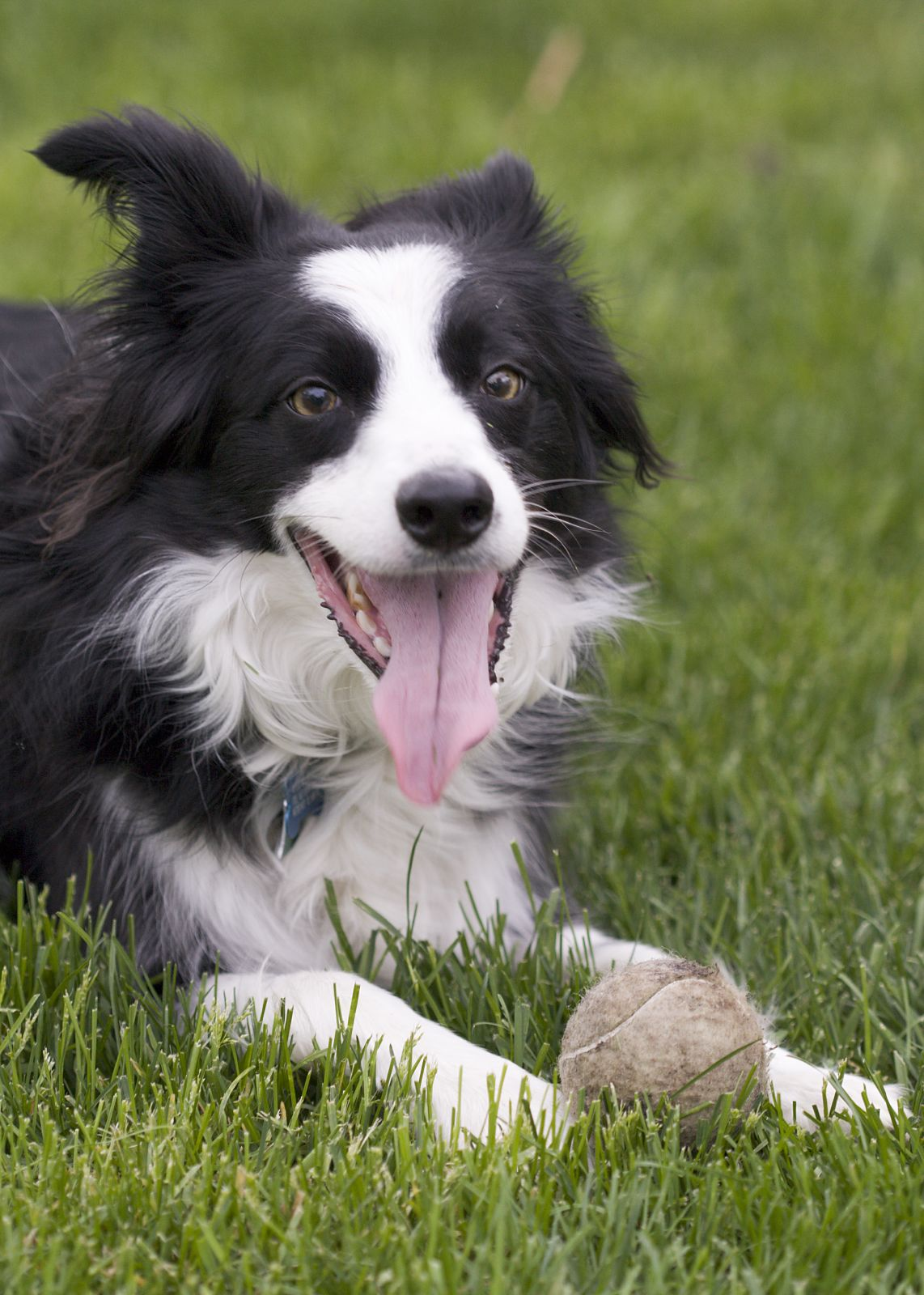 A Border Collie resting during a game of fetch.